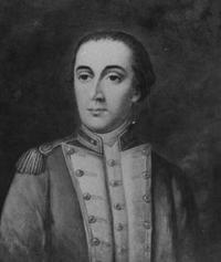 Nicholas Cox, lieutenant-gouverneur de la Gaspésie 1774-1794